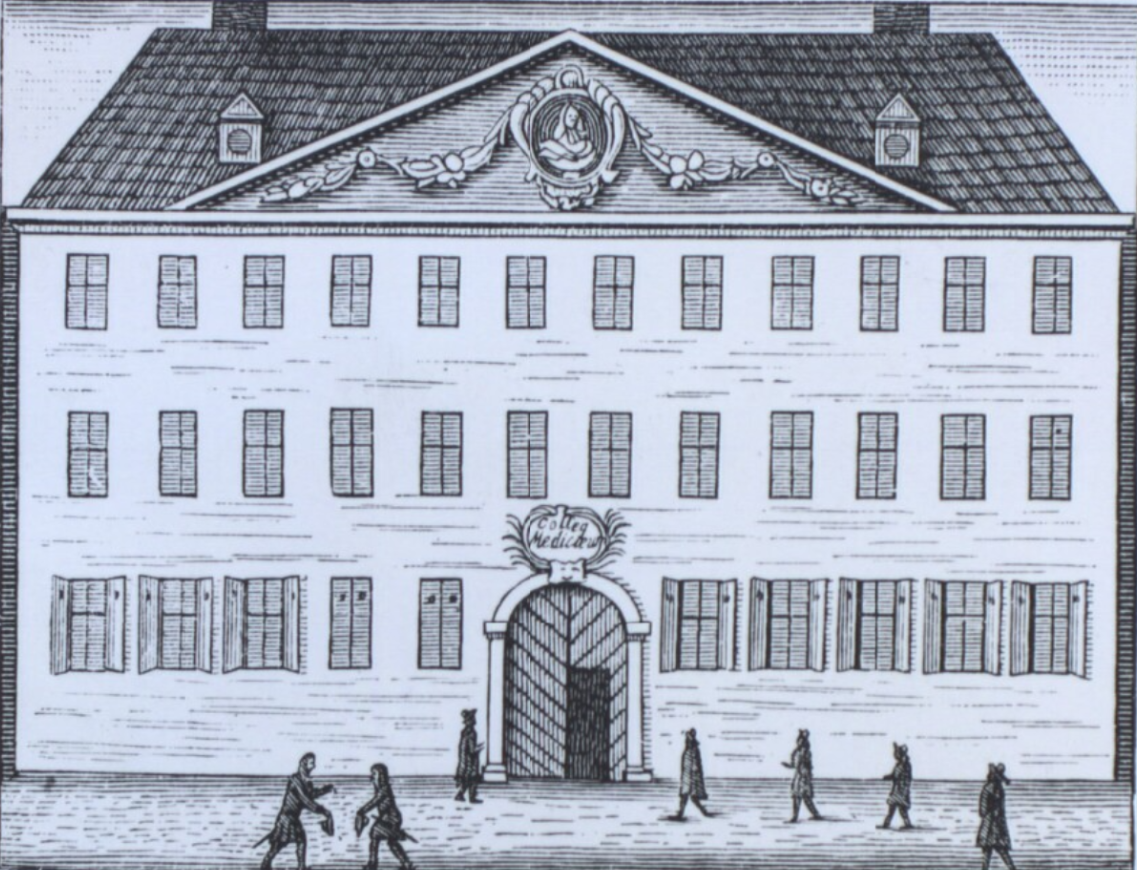 Store Kannikestræde, Borcks Kollegium i 1691